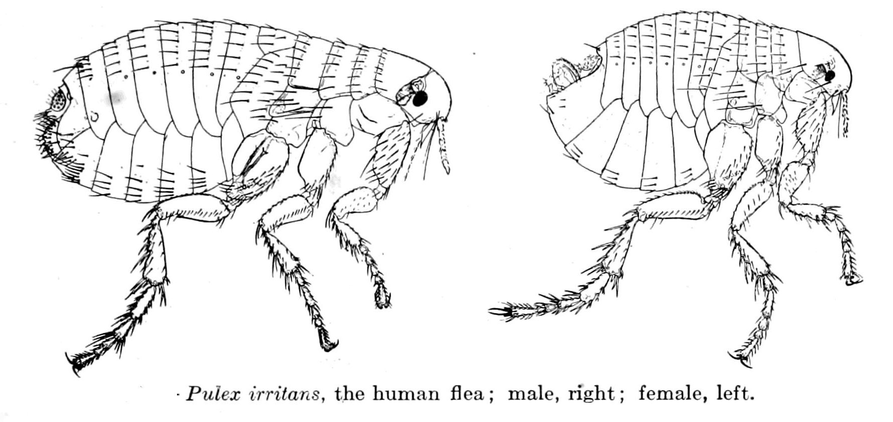 Pulex irritans The Internet Archive notes it as out of copyright